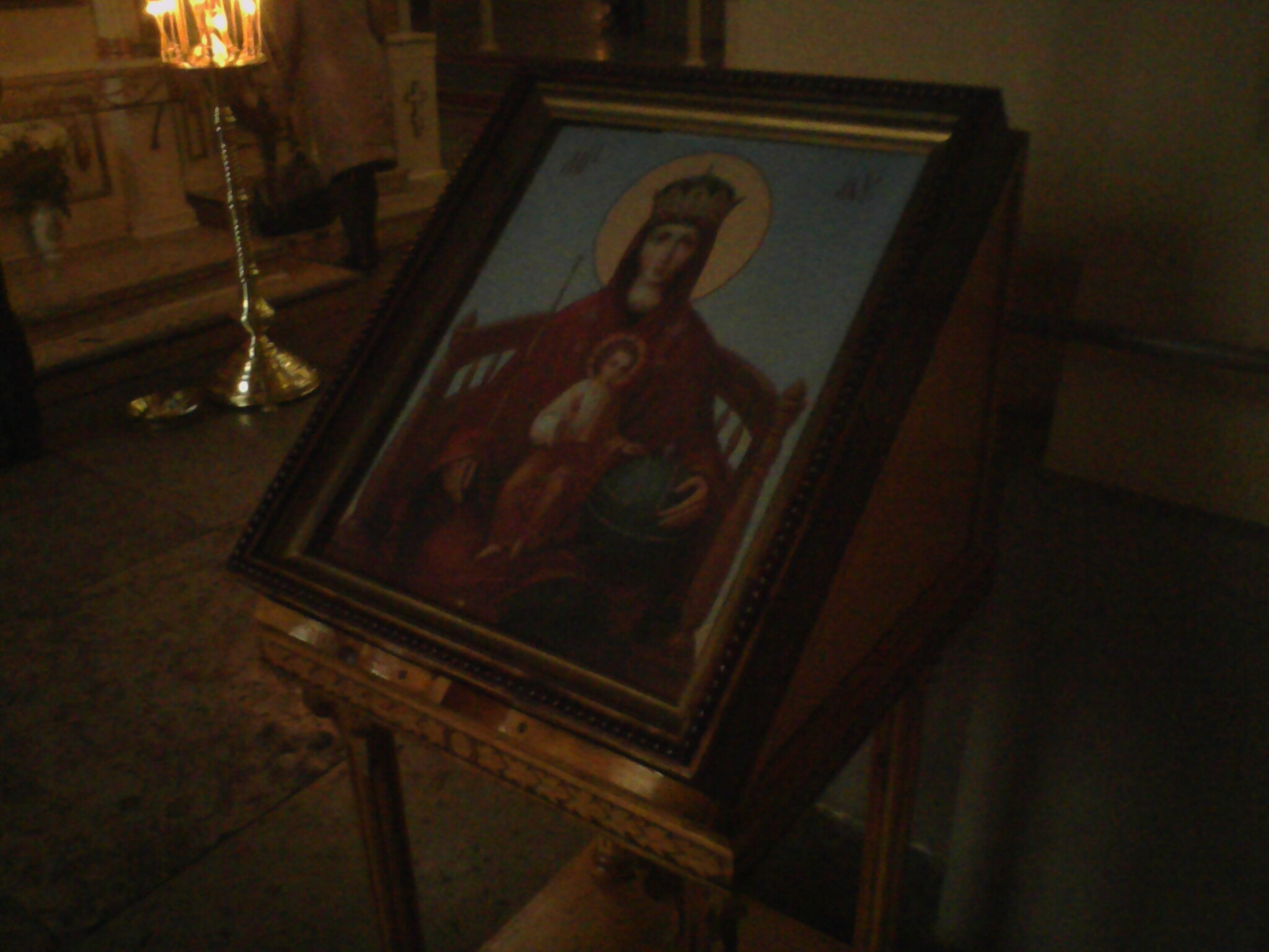 Theotokos Derzhavnaya at Alexander Nevsky Lavra